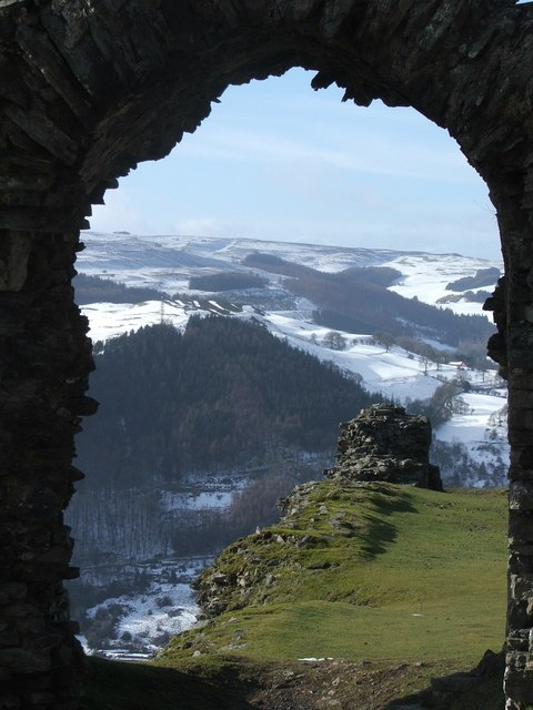 Castell Dinas Bran A view from the arched window of Castell Dinas Bran to the Berwyns